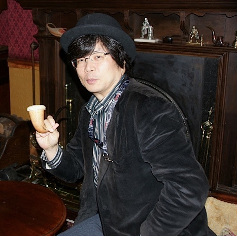 Suzuko Mimori, a voice actress, and Takaaki Kidani, President of the Bushiroad, Inc., visited the Sherlock Holmes Museum in London in 2010.